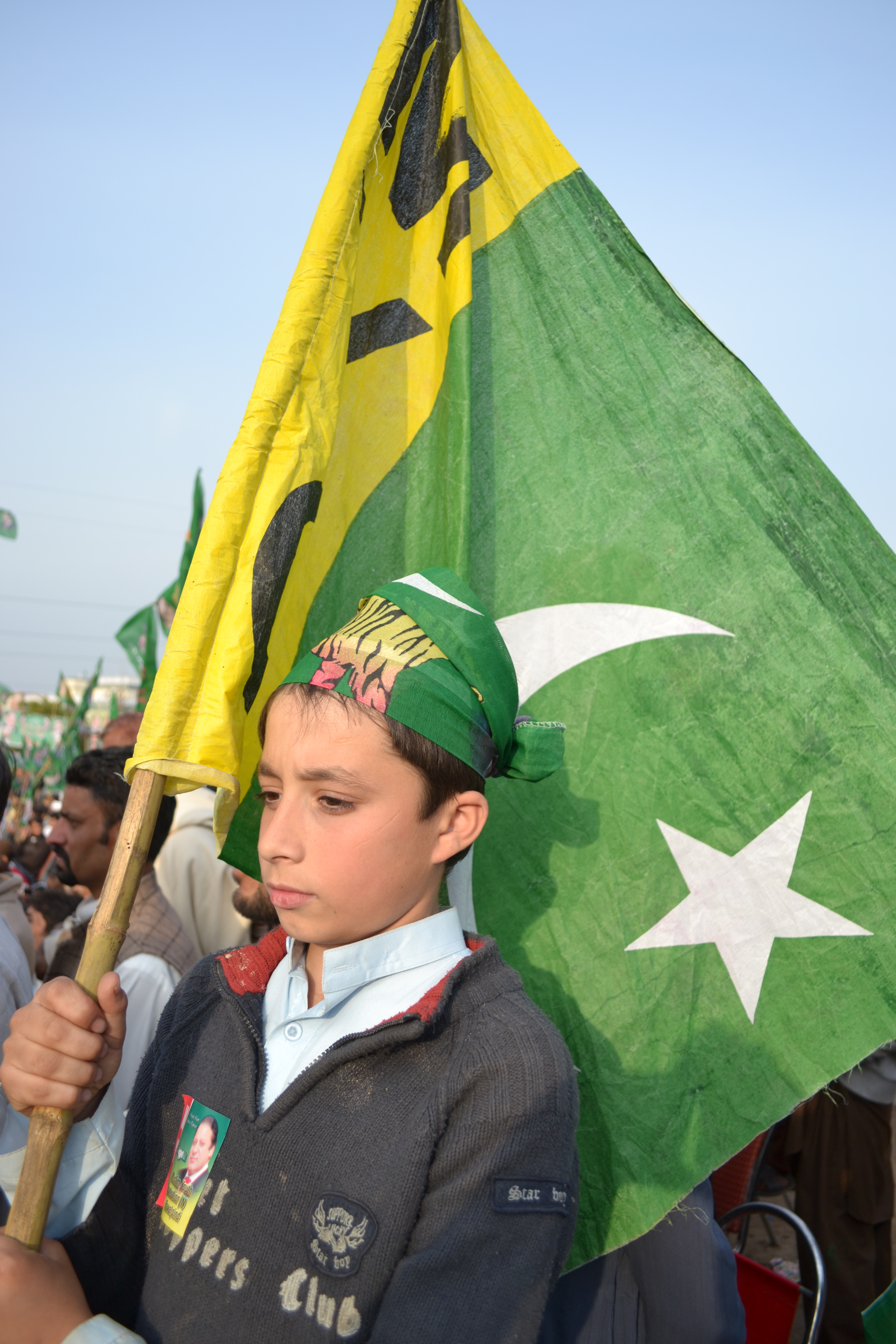 Young Leaguy Worker in a big meeting in Model Town Islamabad led by Shahbaz Sharif